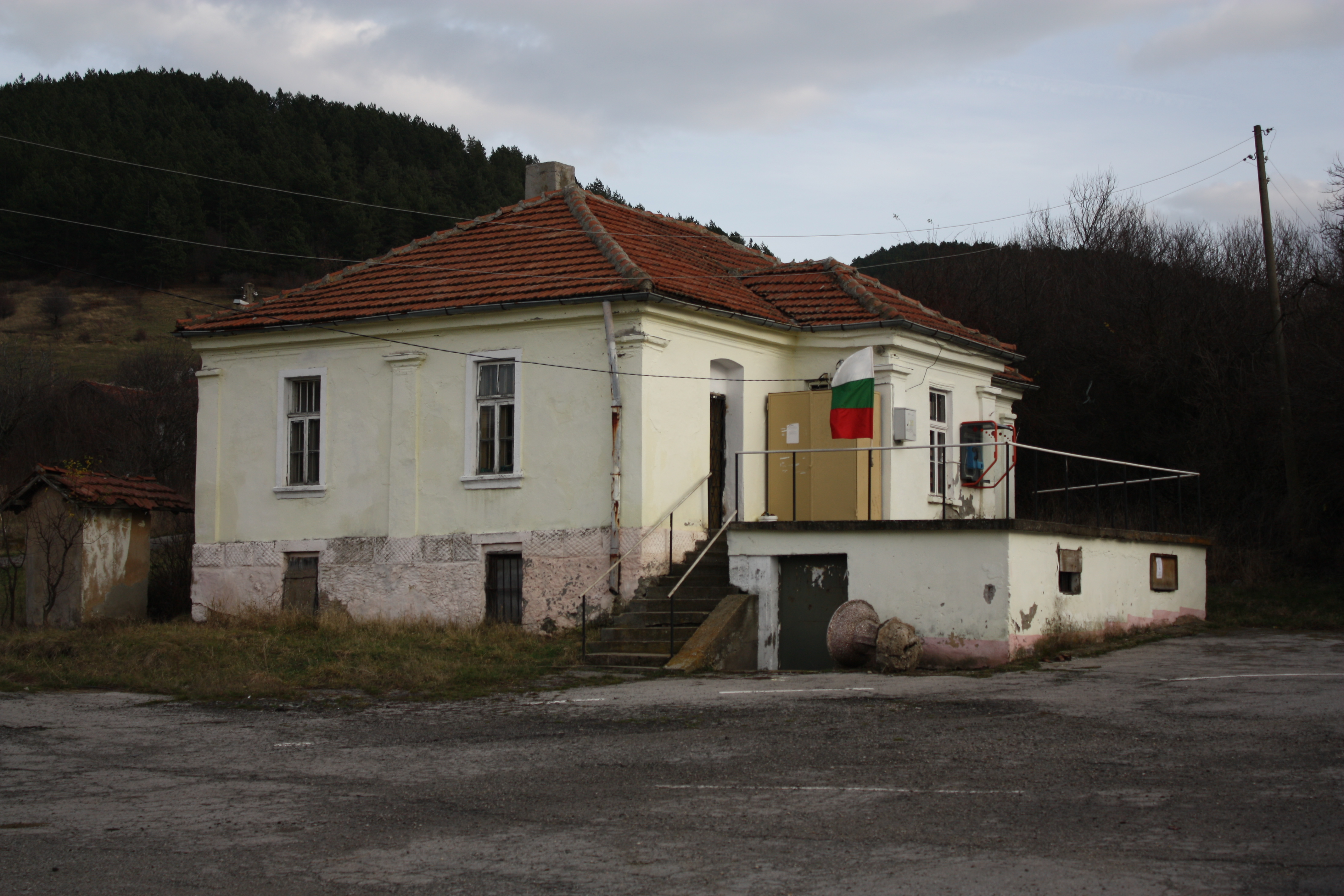 Babitsa village hall